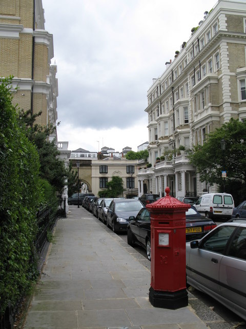 Cornwall Gardens, SW7 (2). Shows the location of 844523.